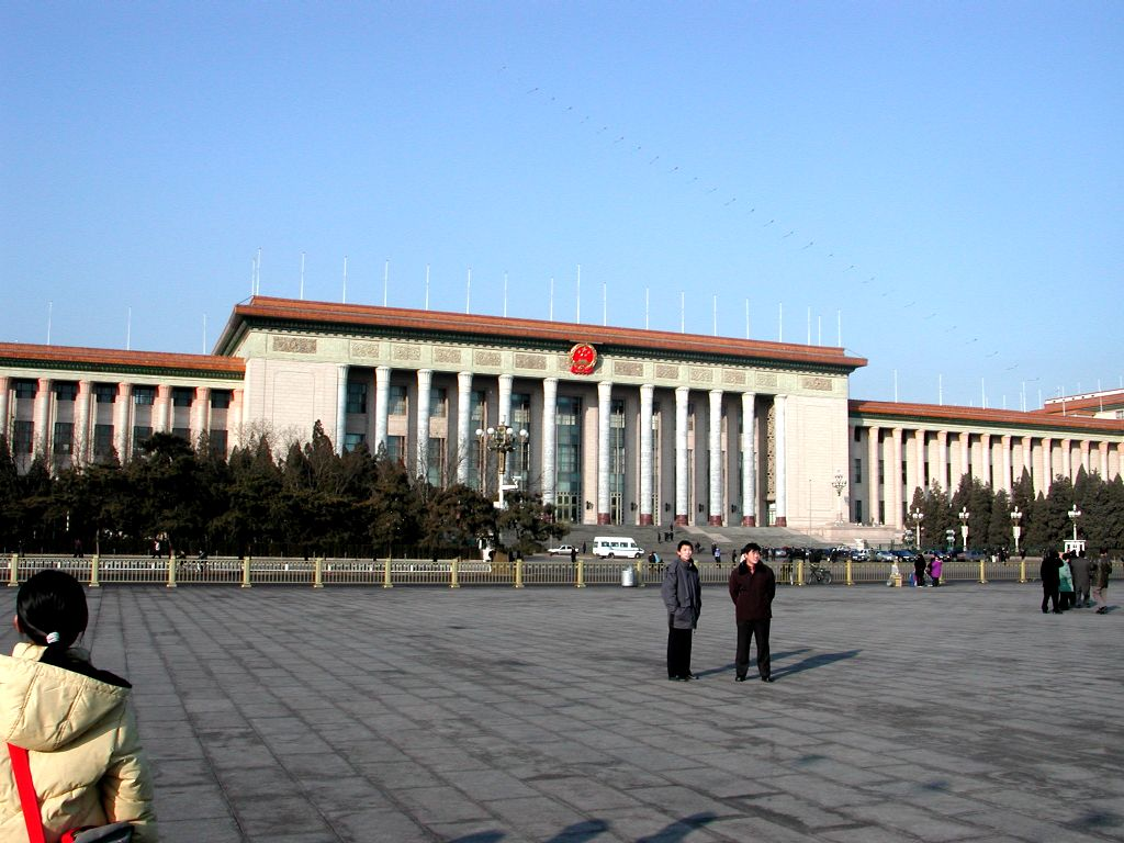 Great Hall of the People, where the National People's Congress (NPC) of China convenes